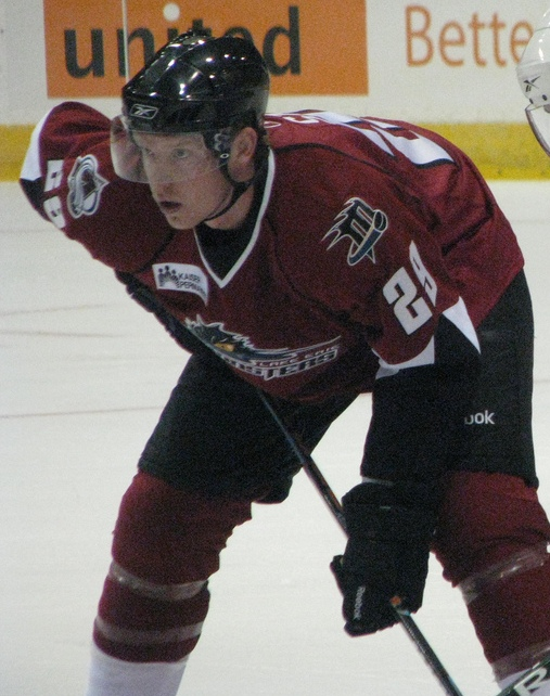 Ryan Stoa Rochester Americans vs Lake Erie Monsters on October 3, 2009 at Blue Cross Arena.